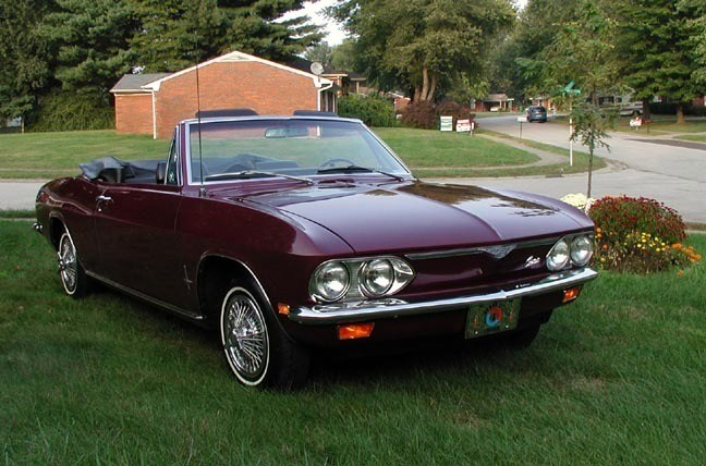 1969 Chevrolet Corvair Monza Convertible